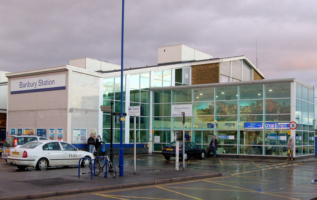 Banbury station forecourt The booking hall and main entrance to Banbury railway station, situated on the west side of the line and seen here looking south